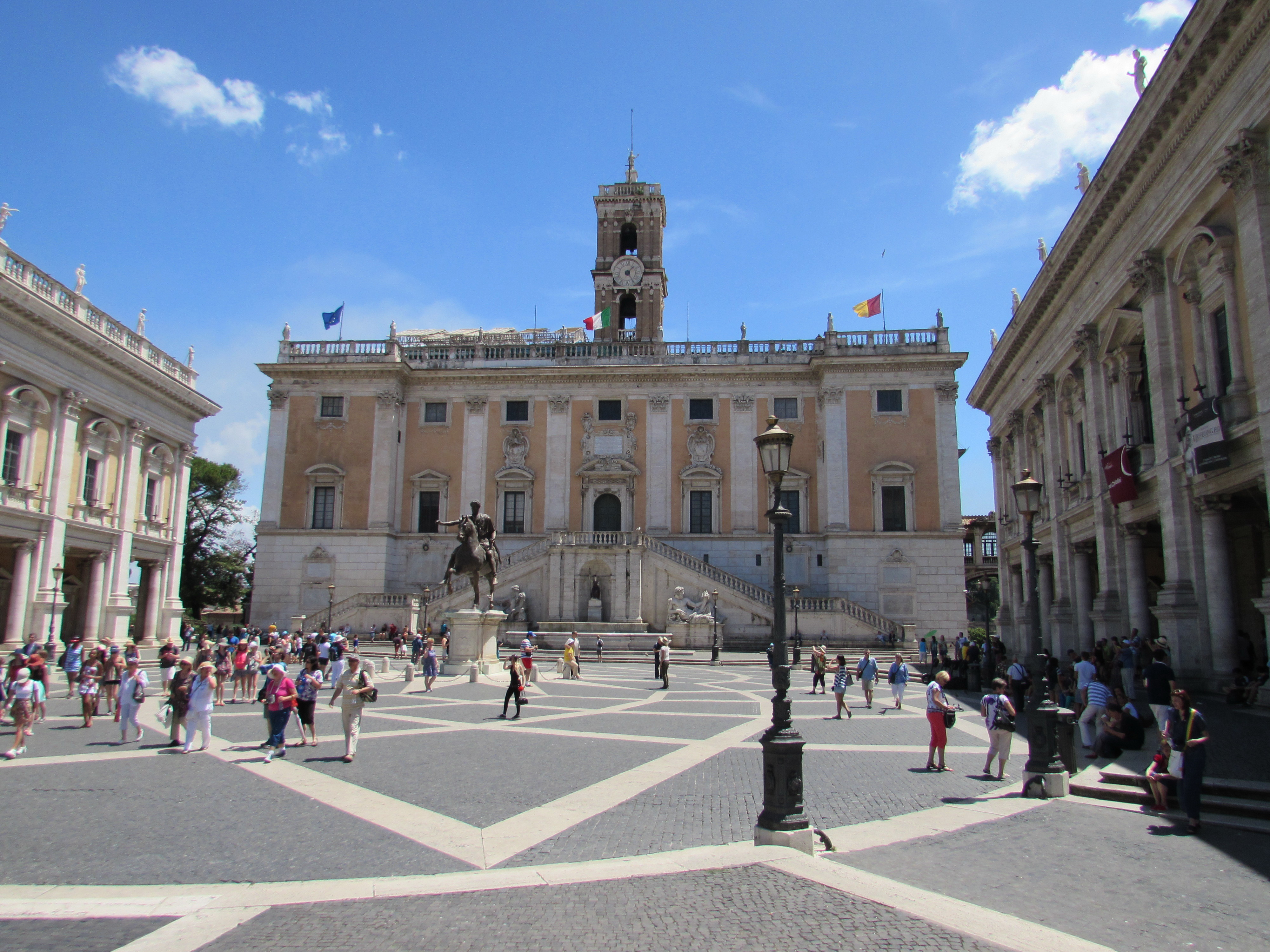 Piazza del Campidoglio (Rome)